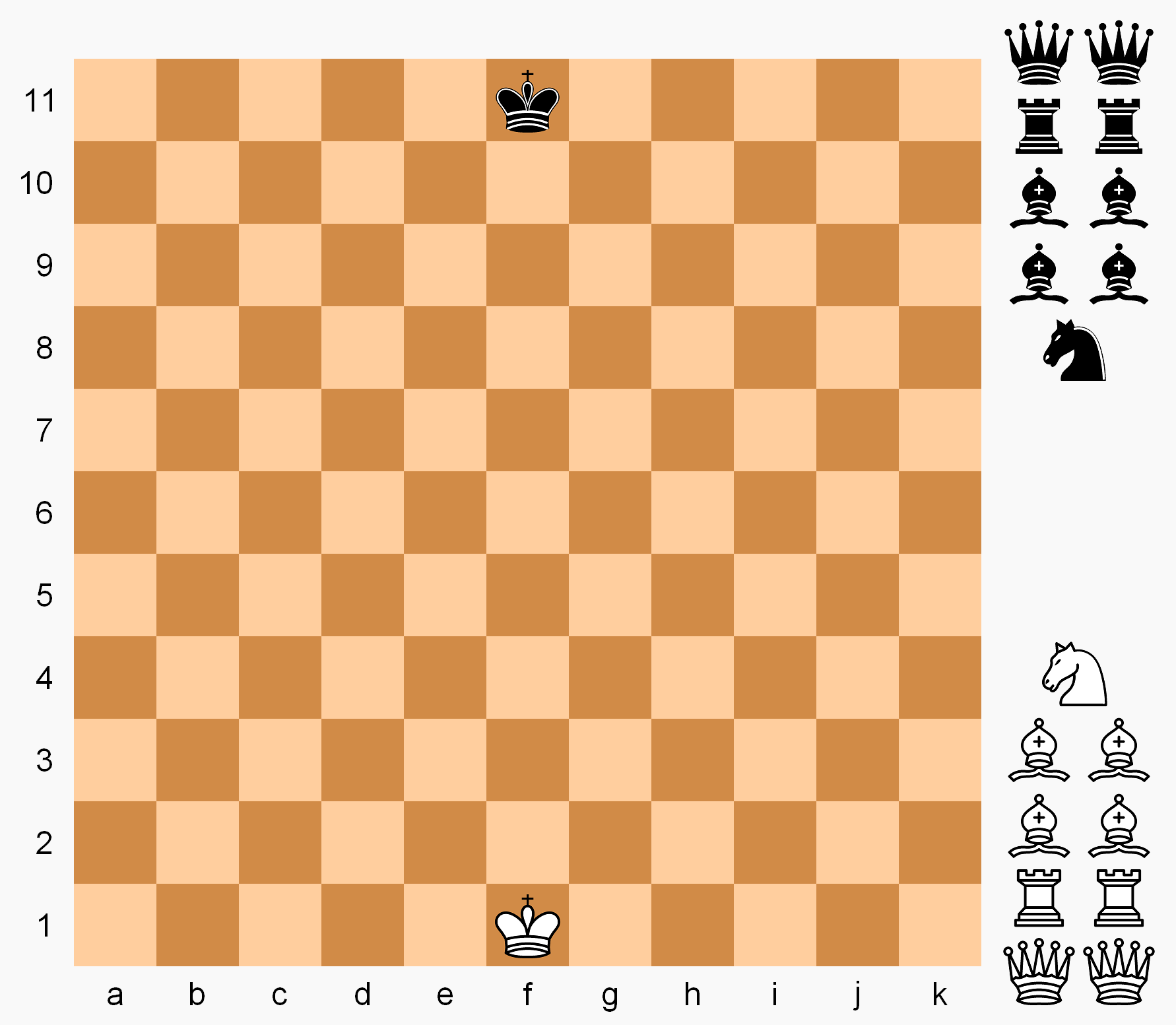 Contramatic Chess starting position. Made in PAINT using ProjChess colors and the great chess icons fashioned by David Benbennick (User:Dbenbenn).